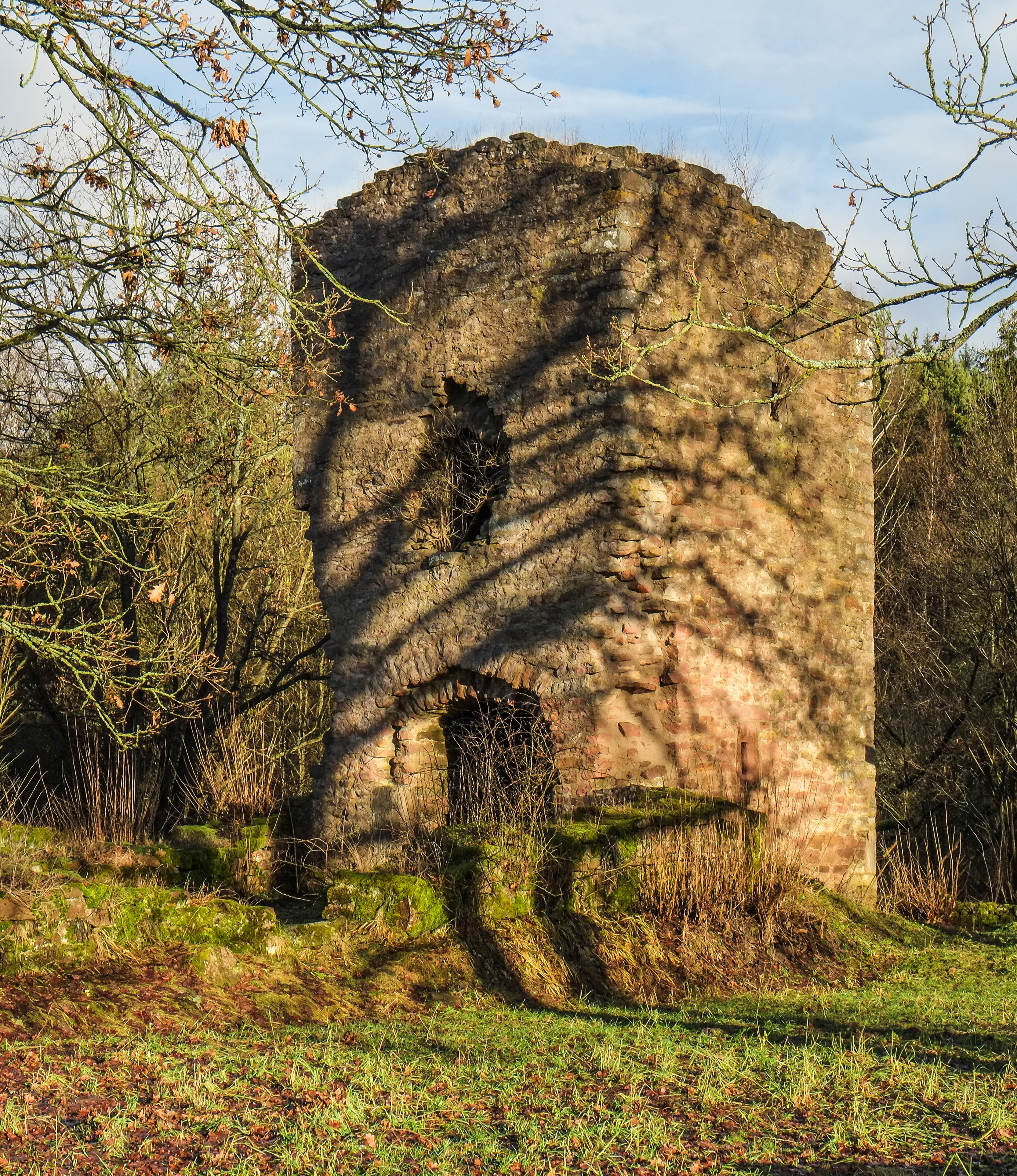 Ruin of the fortified church Mauerschädel, Willmars-Filke, county Rhön-Grabfeld, Germany